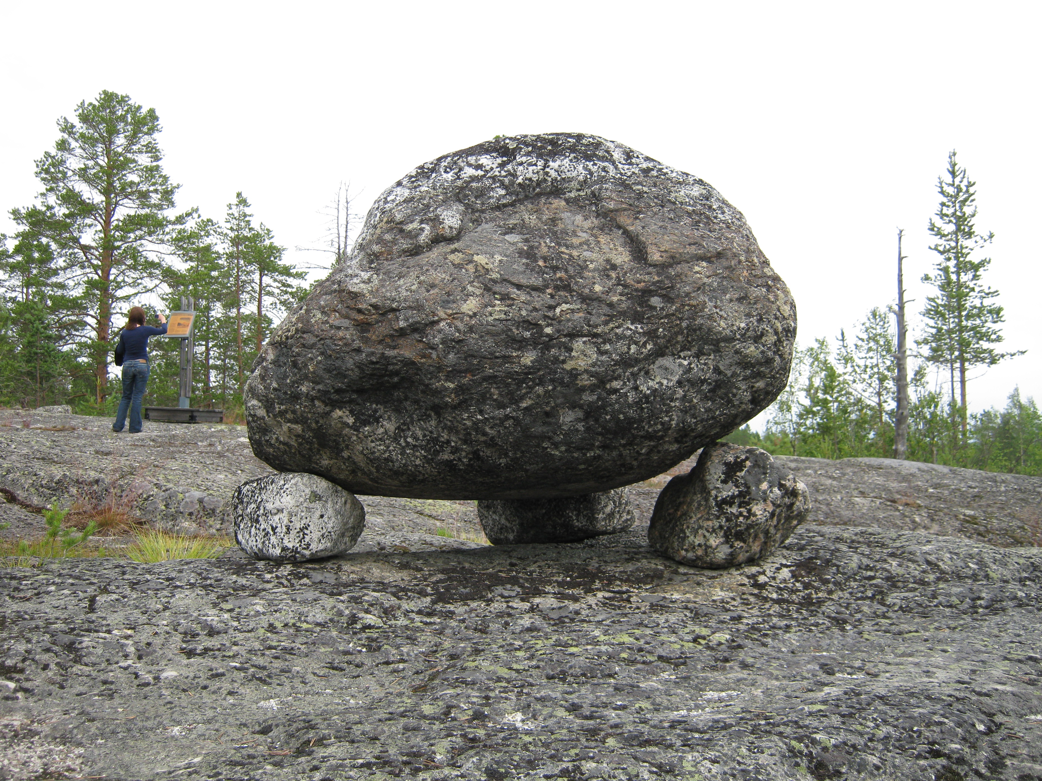 Stone monument "Liggande hönan" ("roosting hen") from Bronze Age/Iron Age, near Jävre, Piteå kommun, Norrbotten, Sweden